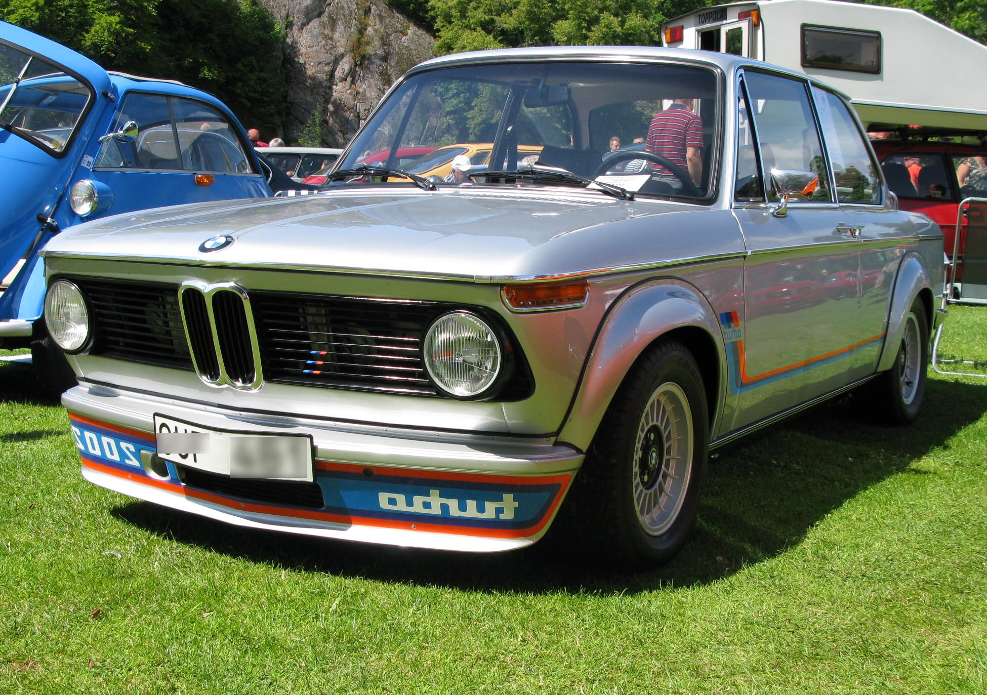 1974 BMW 2002 turbo.Event: Nostalgia festival, Ronneby 2012